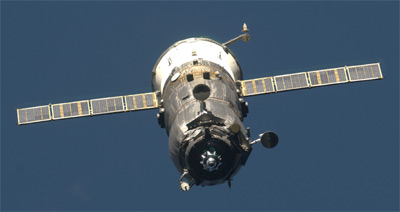 Progress M-01M seen from the International Space Station